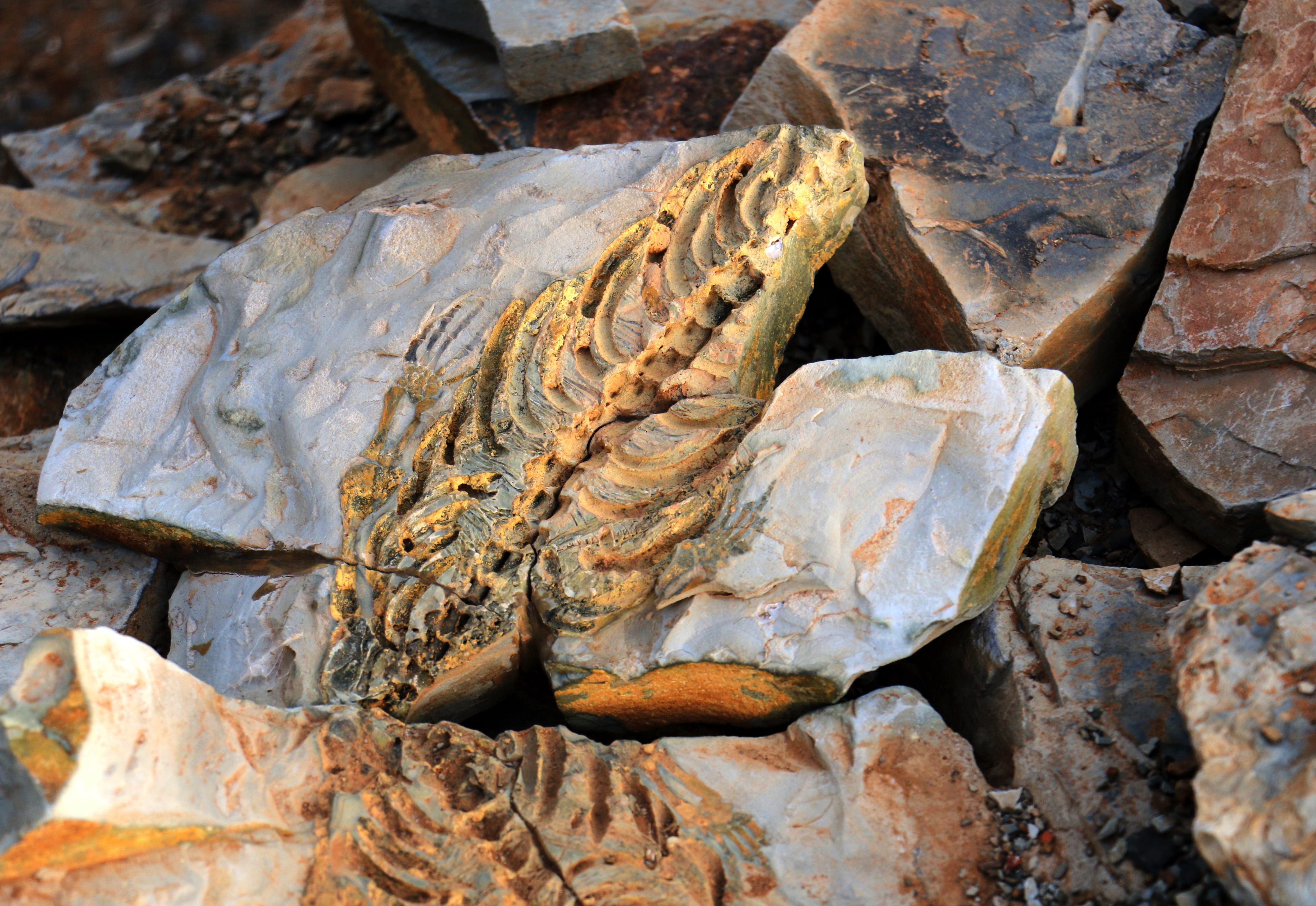 Skeleton molds of Mesosaurus sp. in whitish weathering shales of the Whitehill Formation (Artinskian, Lower Permian) near Keetmanshoop in southeastern Namibia, Aranos Basin